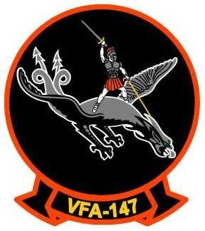 VFA-147 Argonauts logo